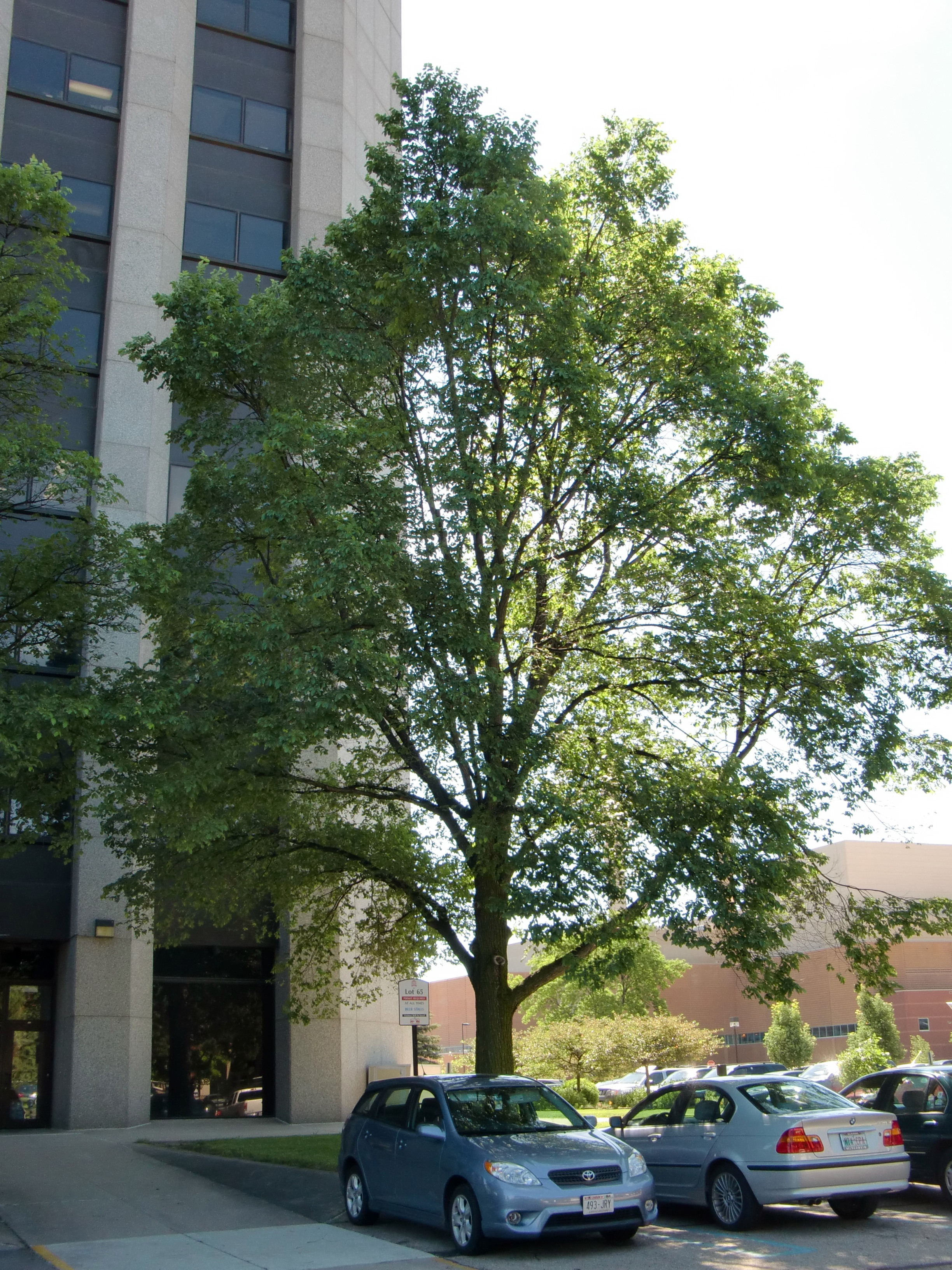 Photo of Ulmus 'New Horizon' at Wisconsin-Madison University